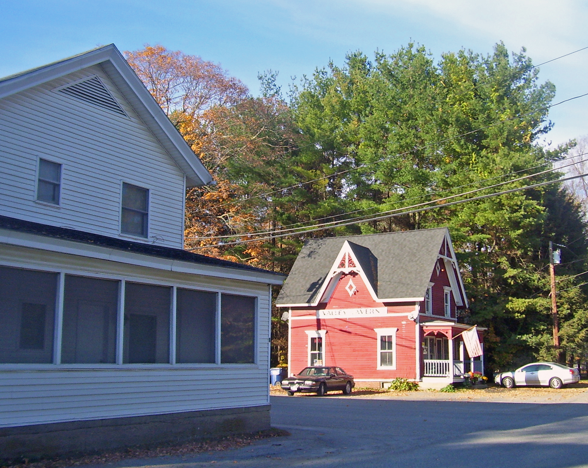 Intersection of Sharon Valley and Sharon Station roads in Sharon Valley, CT, a designated Hu